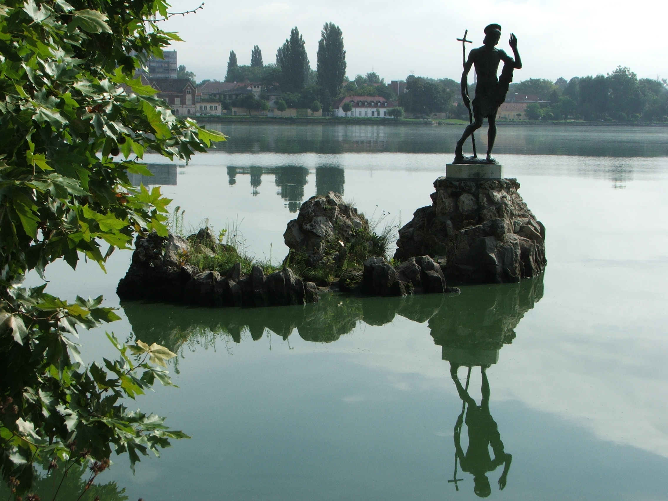 John the Baptist statue in Old Lake (Öreg-tó) Photo: József Süveg